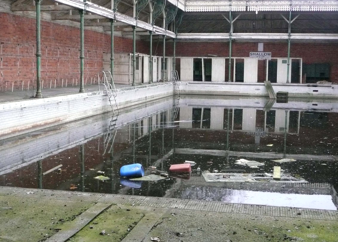 Kings Meadow Pool, Reading